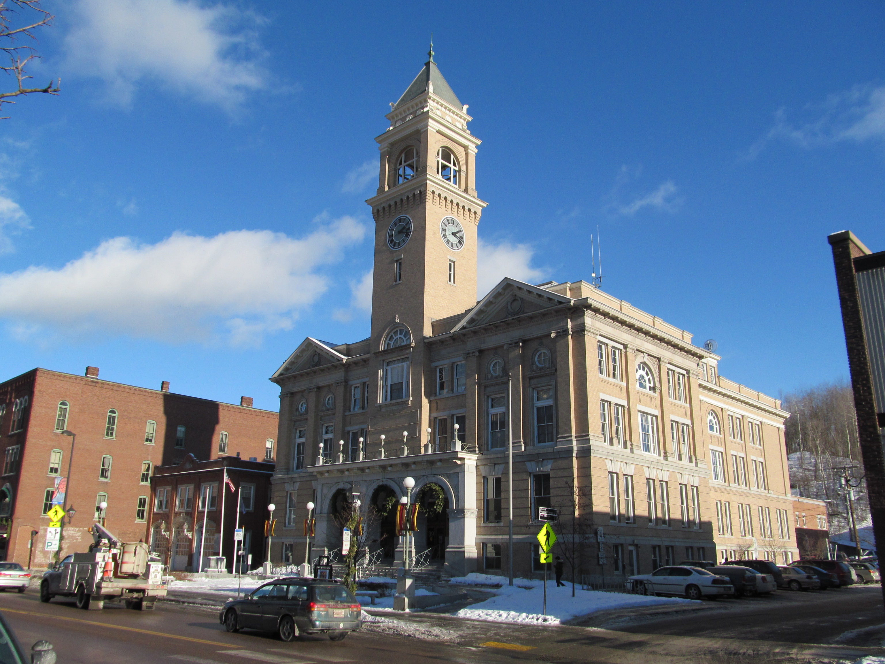 City Hall, Montpelier Vermont